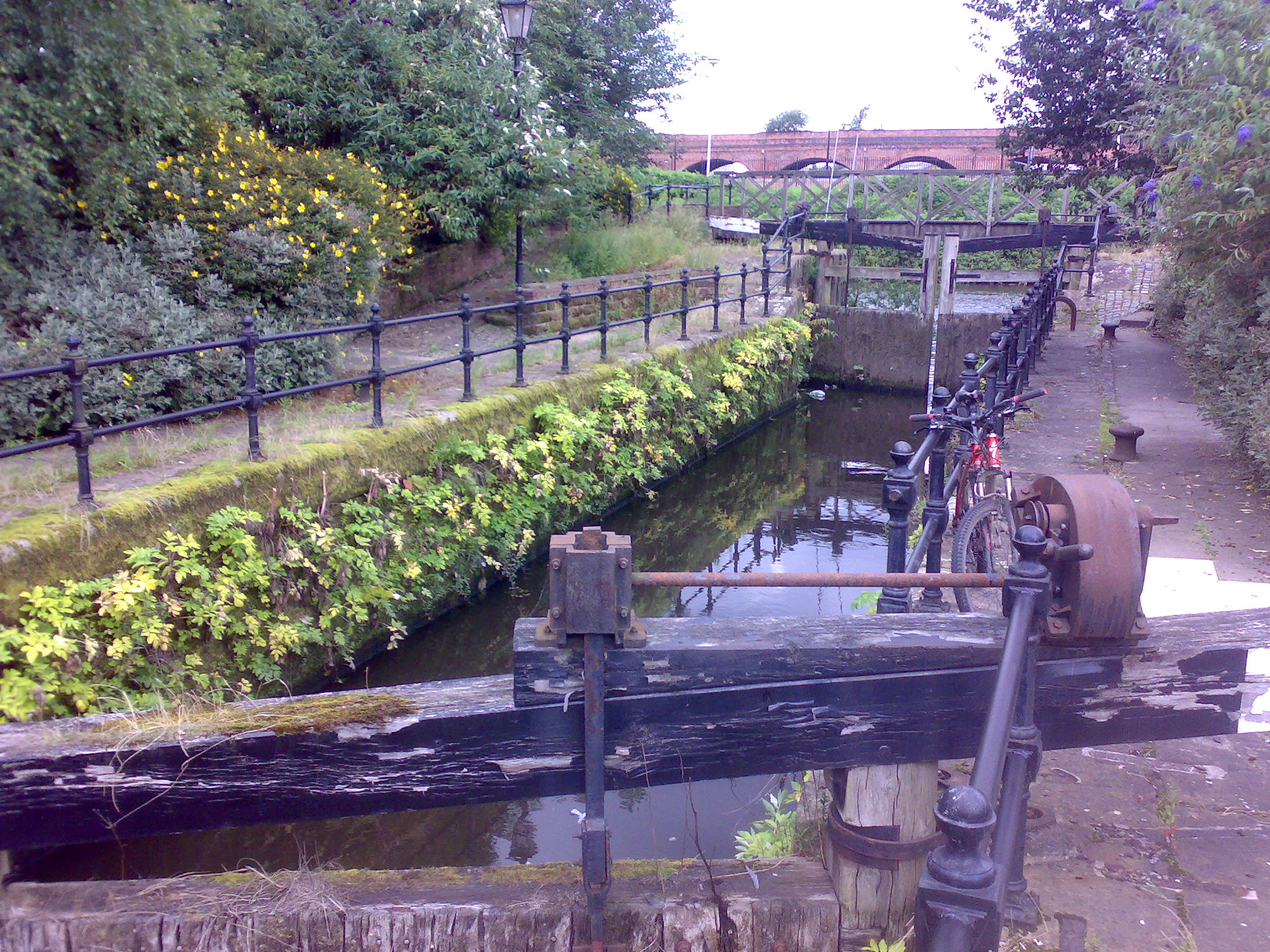 Looking north to the Irwell